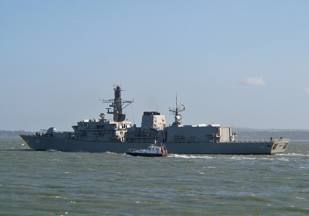 The Chilean Navy frigate Almirante Lynch FF-07 (ex-HMS Grafton F80) pictured prior to delivery, leaving Portsmouth Naval Base, UK, on 19 May 2007 by Brian Burnell.